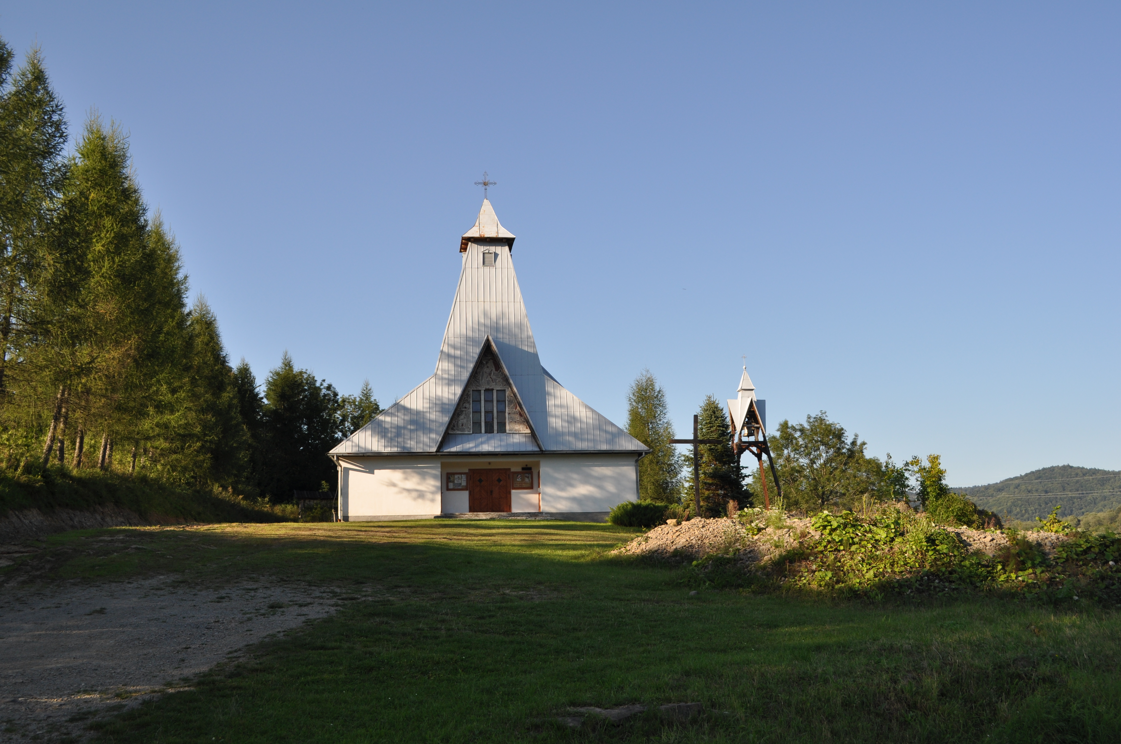 Church in Zatwarnica